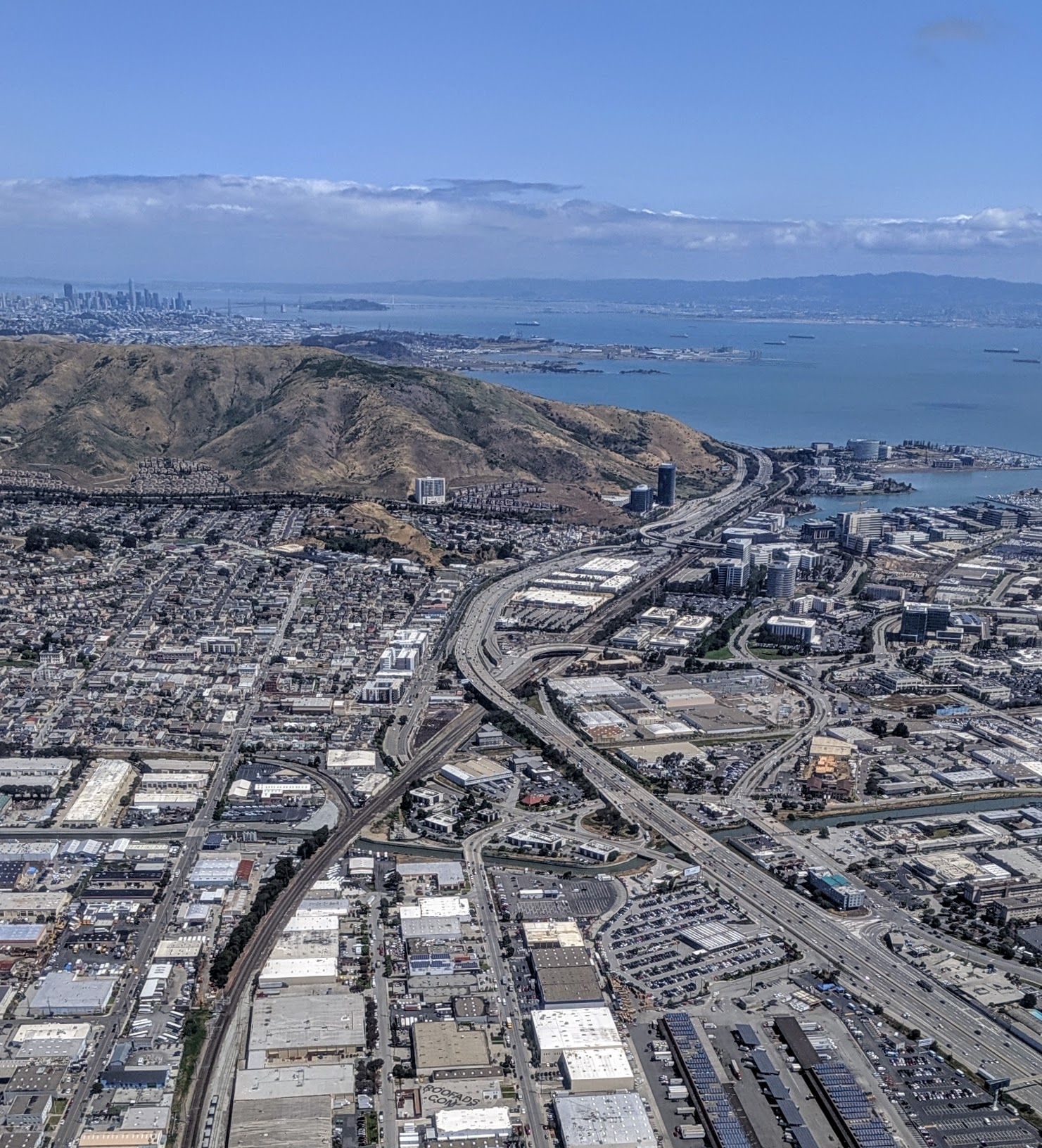 Aerial view from the south of South San Francisco, including where the railroad crosses under US 101 and Grand Ave., the site of the South San Francisco Caltrain station